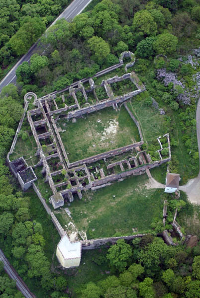 Vígľaš Castle, Slovakia, aerial photography